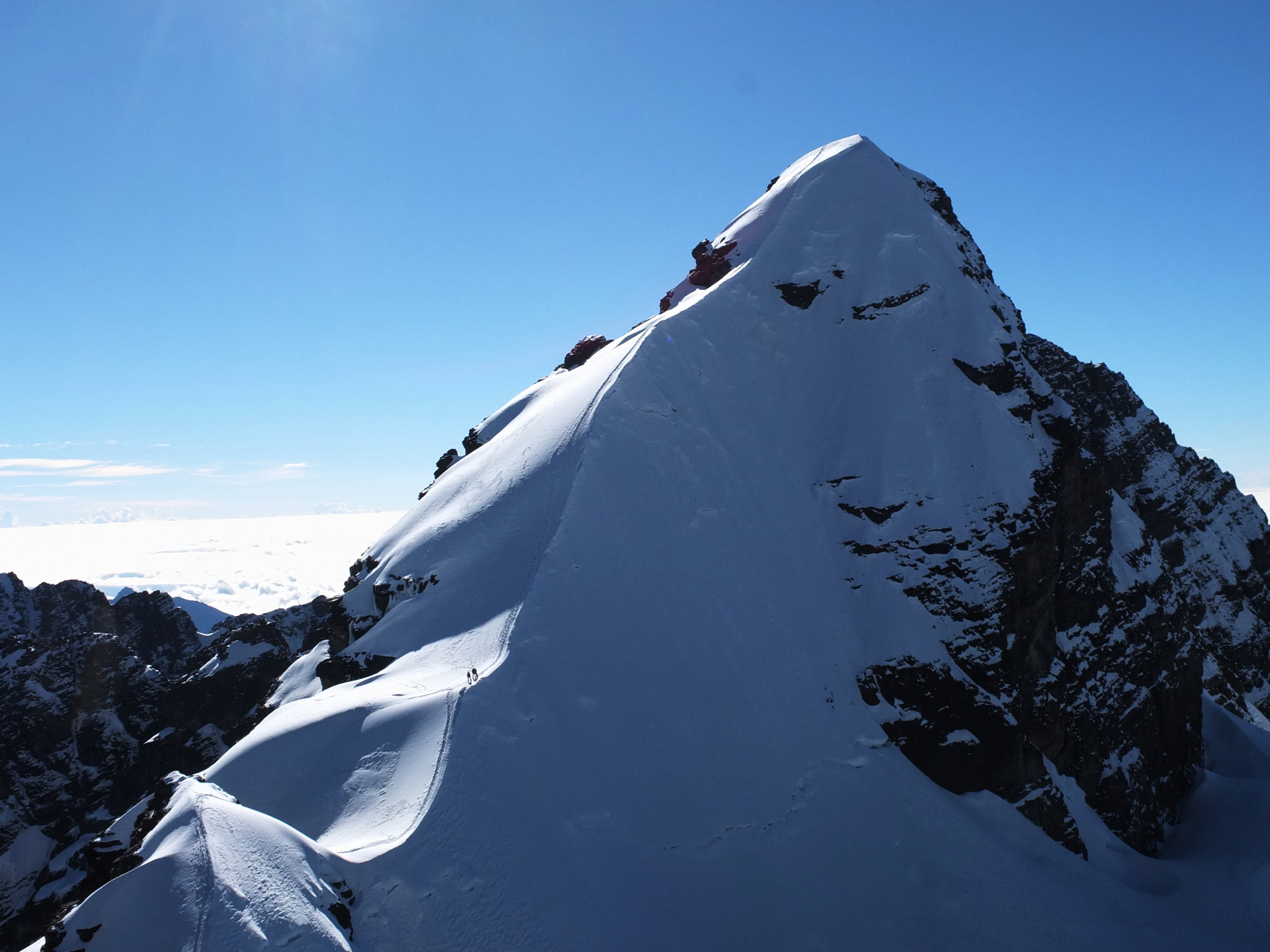 Pequeño Alpamayo seen from the summit of Tarija. Bolivia 2013